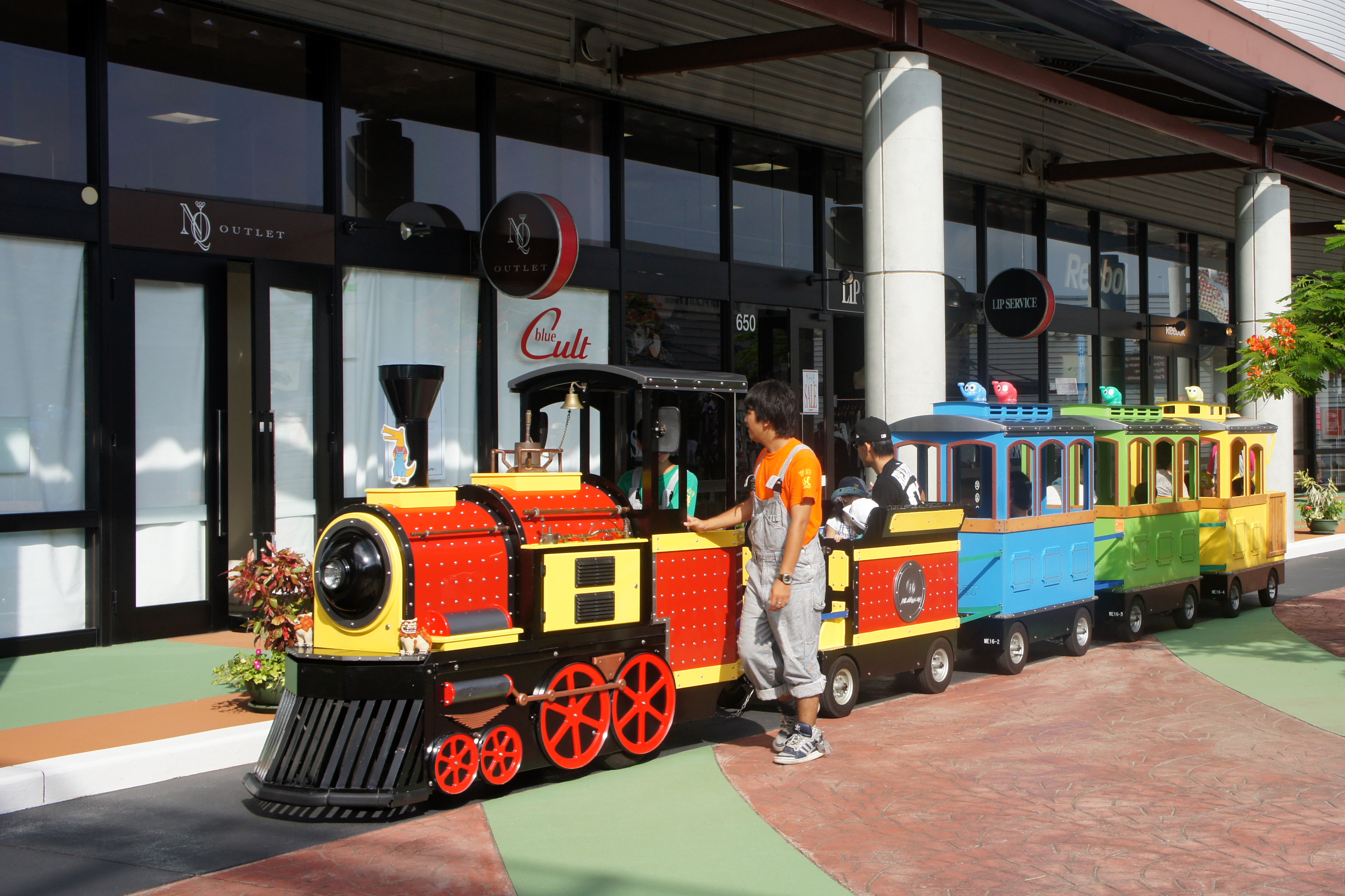 Okinawa Outlet Mall Ashibinaa in Tomigusuku, Okinawa prefecture, Japan.